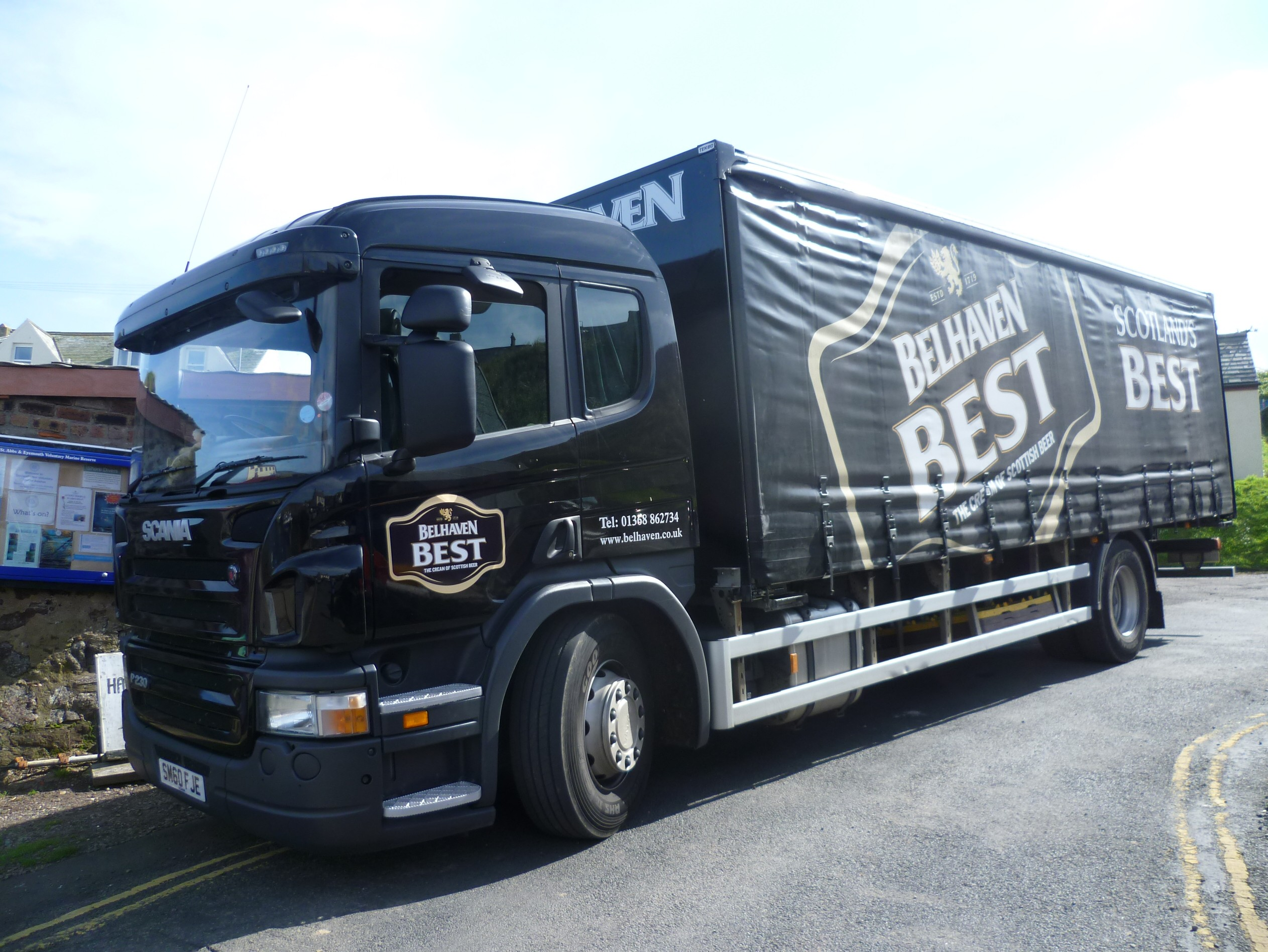 Belhaven Brewery delivery lorry photographed at St. Abbs, Berwickshire, Aug. 2011